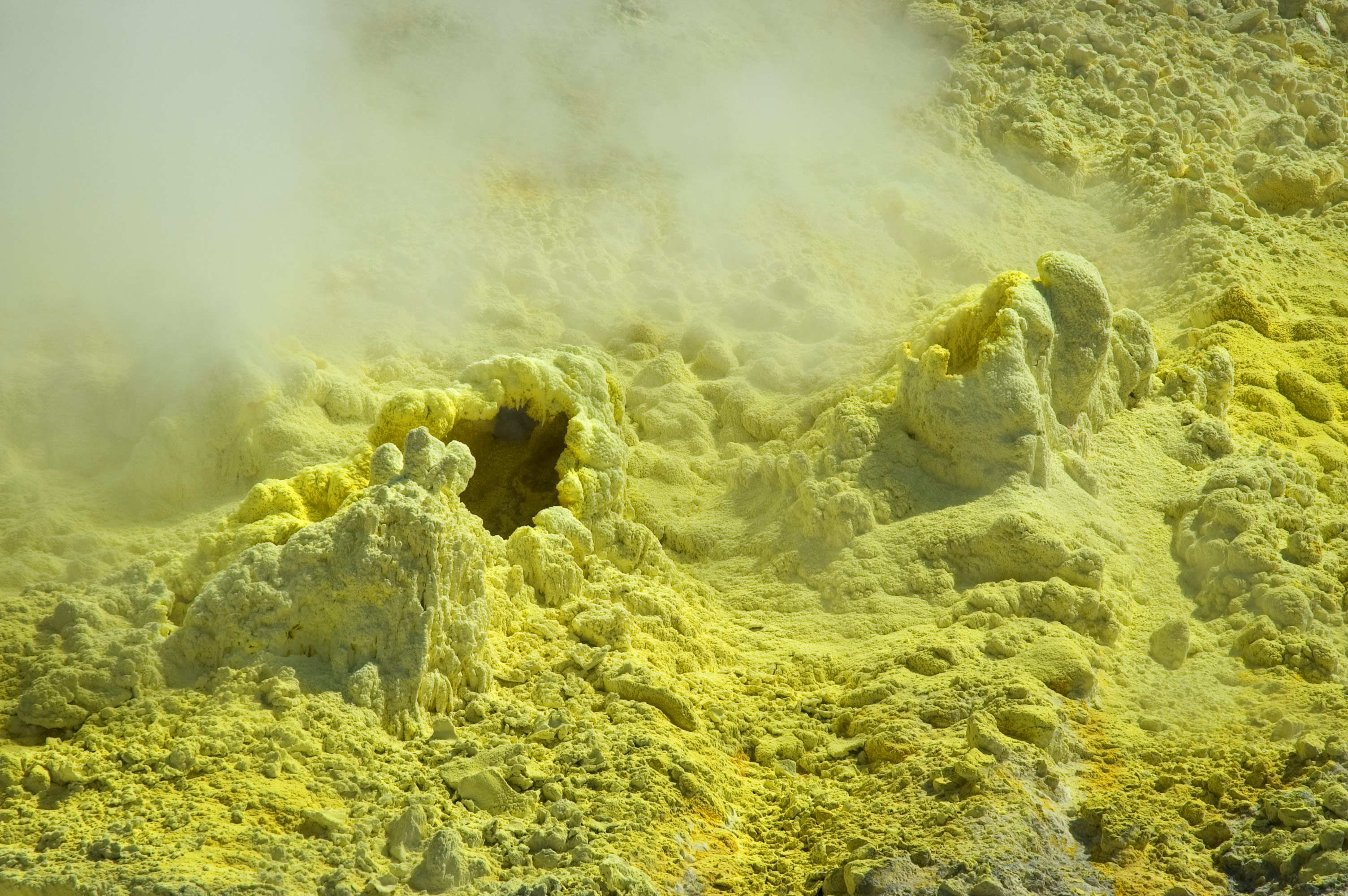 Sulpherous fumeroles, White Island, New Zealand.